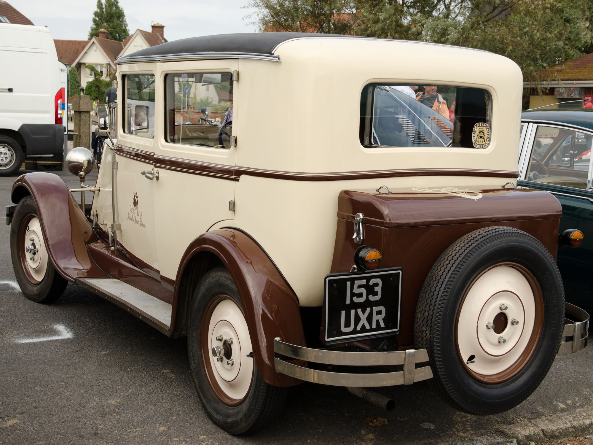 1931 Renault Monasix Saloon (DVLA) first registered - year of manufacture 1931, 1474 cc Lytham Classic Car Show 14/09/2014